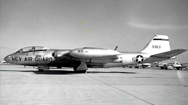 192d Tactical Reconnaissance Squadron RB-57C 53-3831